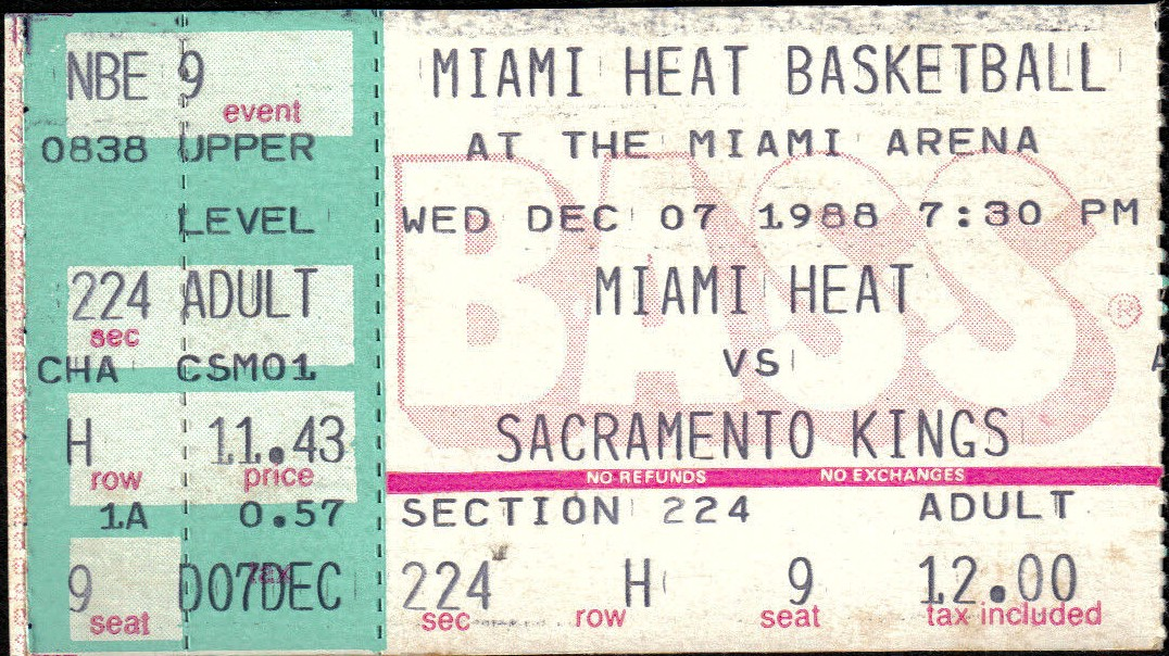 A ticket for a December 7, 1988 National Basketball Association game featuring the Sacramento Kings versus the Miami Heat at the Miami Arena. This would be the Miami Heat's first ever regular season game against the Sacramento Kings and the 14th game of their franchise.